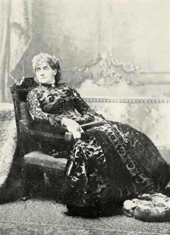 American actress Fanny Janauschek (1829-1904). The picture was published in: The Cechs (Bohemians) in America, by Th. Chapek, Houghton Mifflin Company, 1920, p. 229.